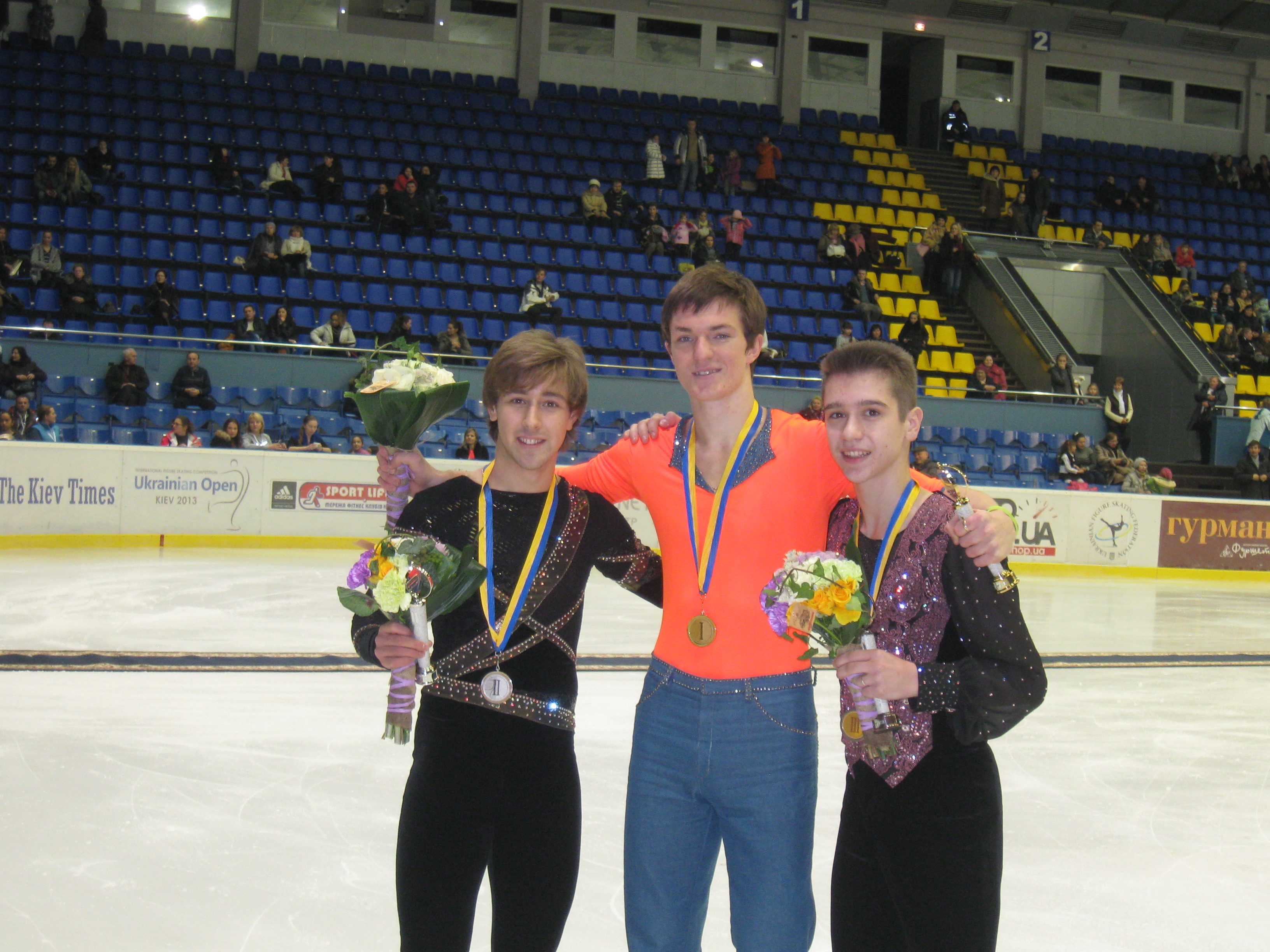 Ukrainian 3 best manskaters at Ukrainian Open 2013